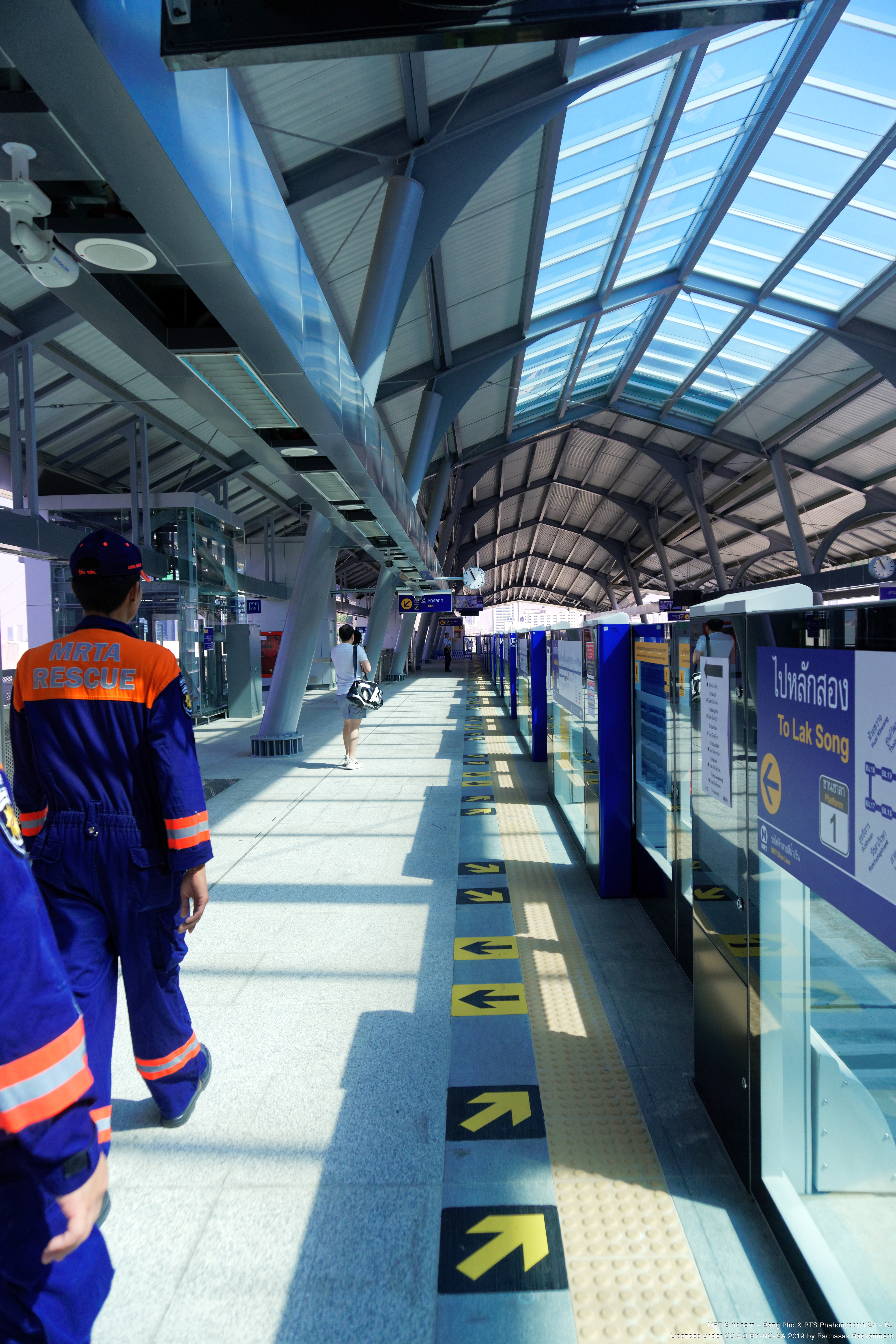 MRT Bang Plad - Platform Tao Poon side toward Bang O Station